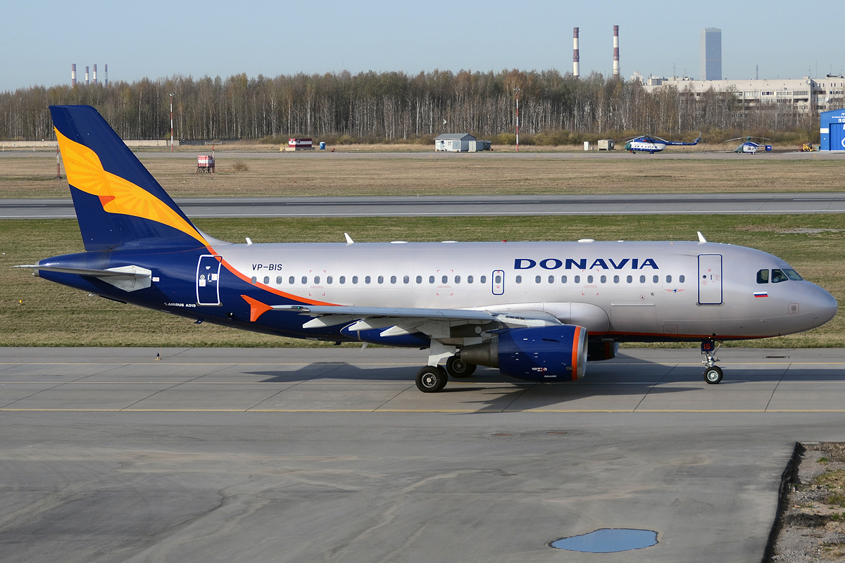 Donavia Airbus A319-112 at Pulkovo Airport